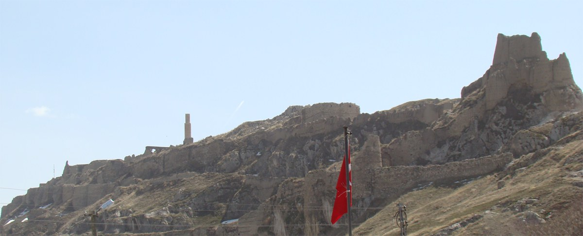 قلعه وان (وان قلعه سی) ترکیه